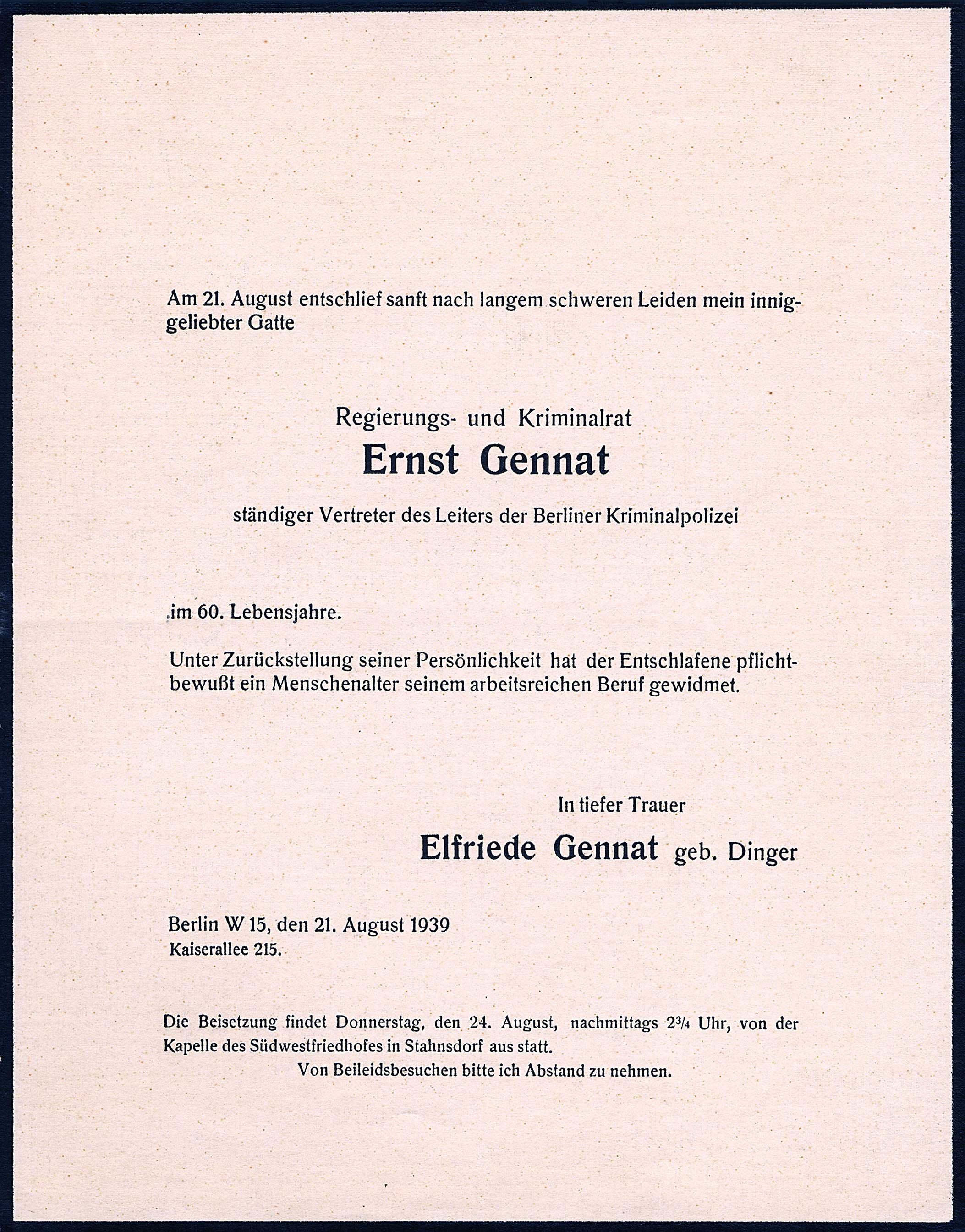 death notice Ernst Gennat